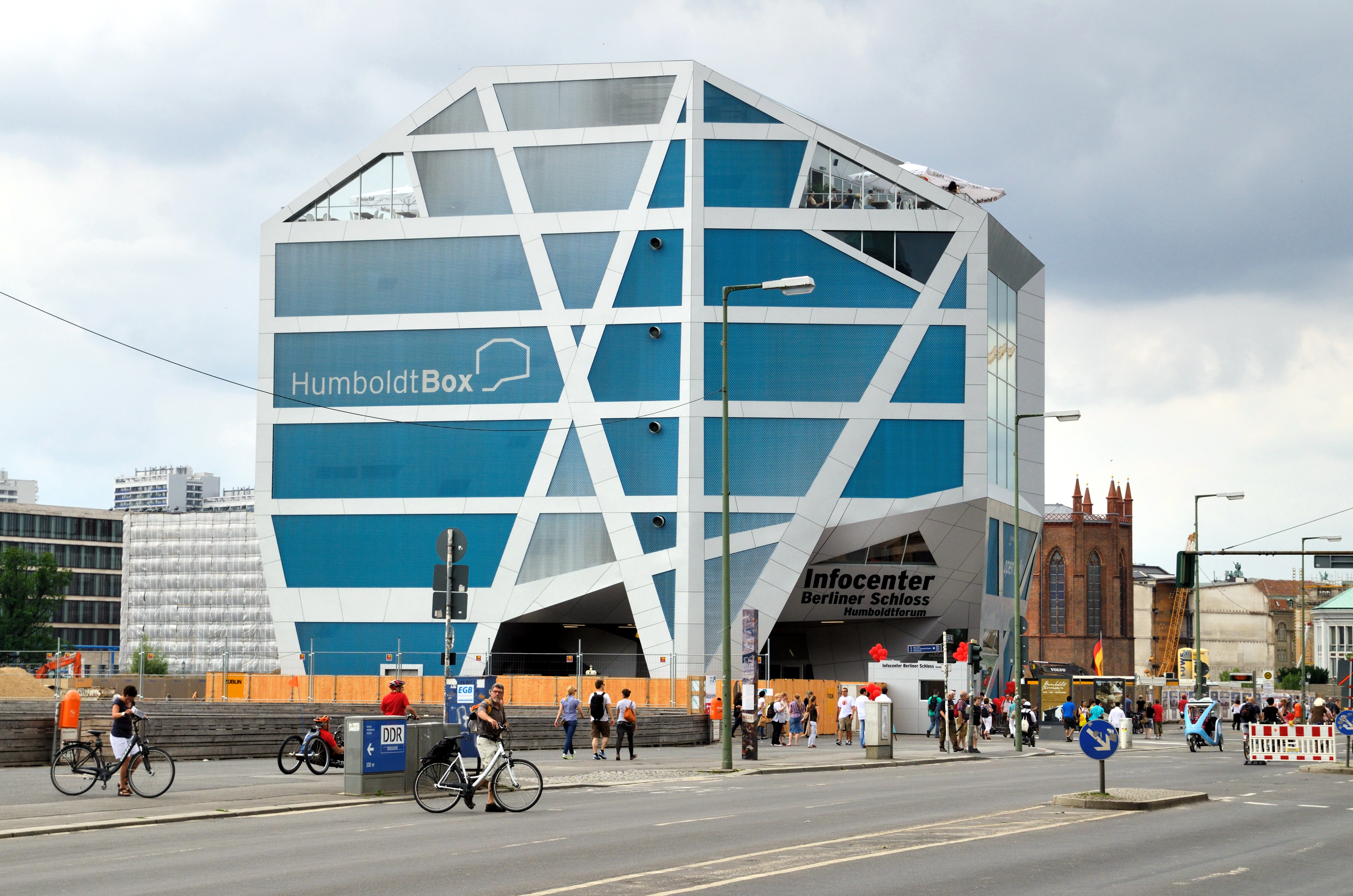 Berlin: Humboldt box